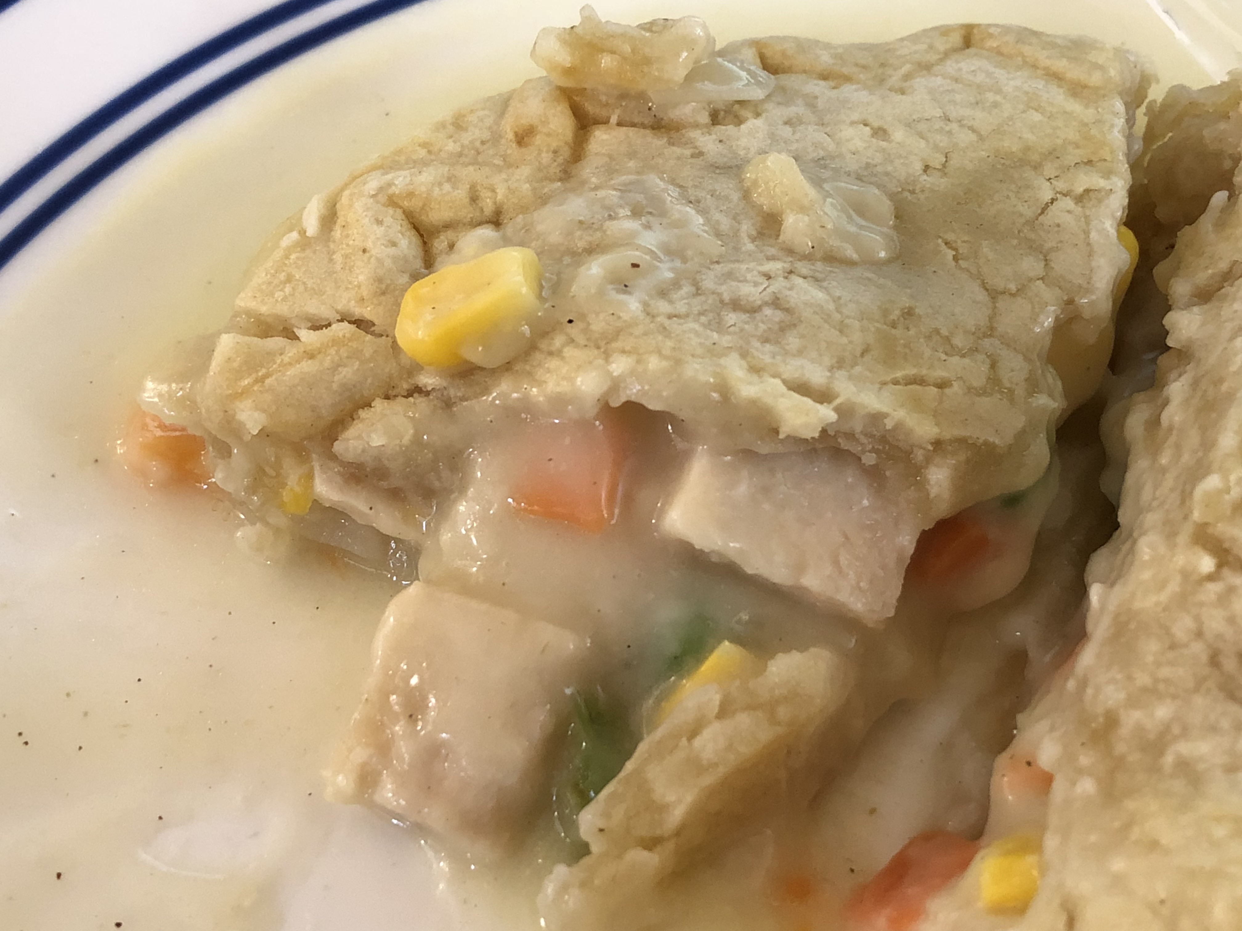 A slice of Boston Market Home Style Chicken Pot Pie after heating the Franklin Farm section of Oak Hill, Fairfax County, Virginia